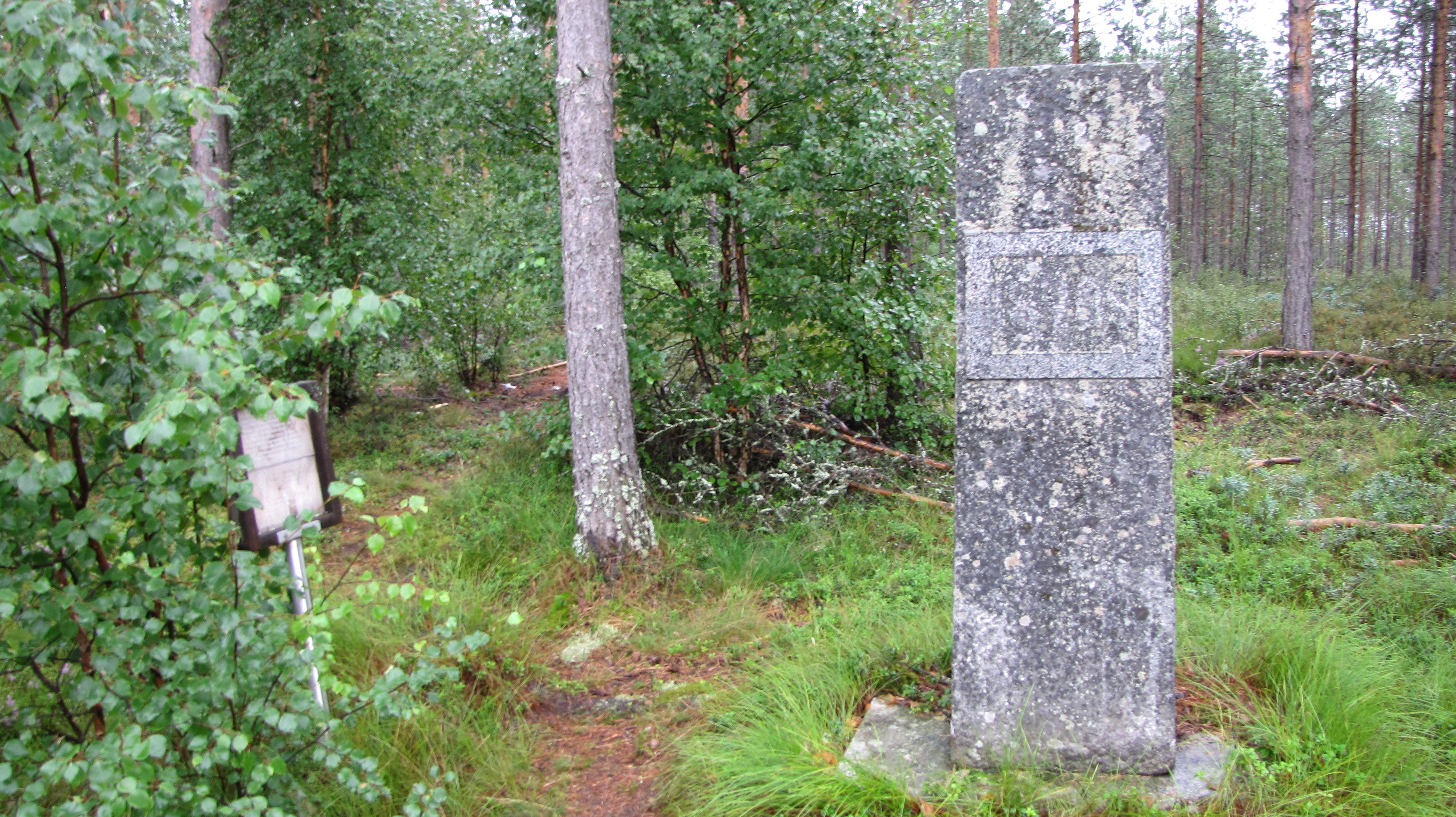 Memorial of Battle of Parjakanneva in Kauhajoki, Finland. The battle was part of Finnish War (1808–1809).